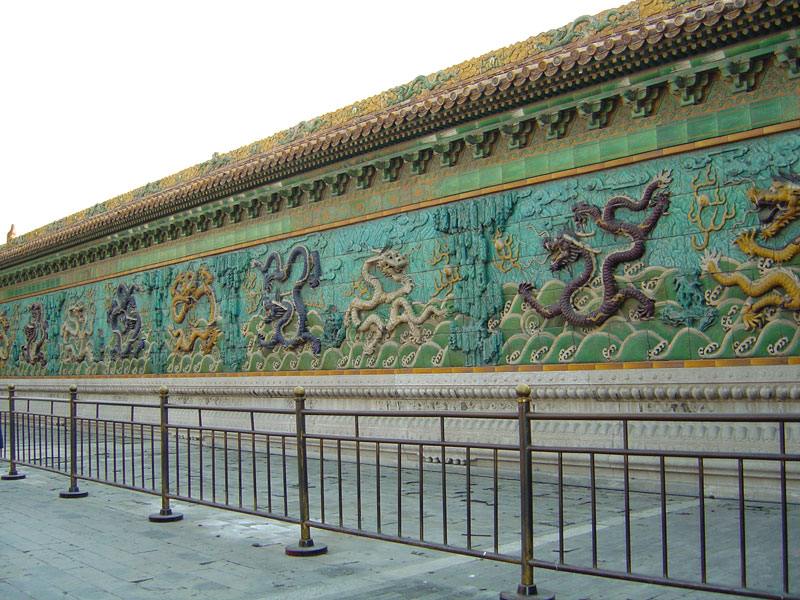 Nine Dragons screen from the Forbidden City, Beijing